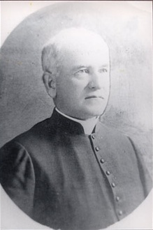 Portrait of Prosper Lebastard (1865-1920), catholic priest, eudist and educator. Second superior of the Sacré-Coeur College in Caraquet and pionneer of superior education in Acadia. Picture taken between 1900 and 1900.